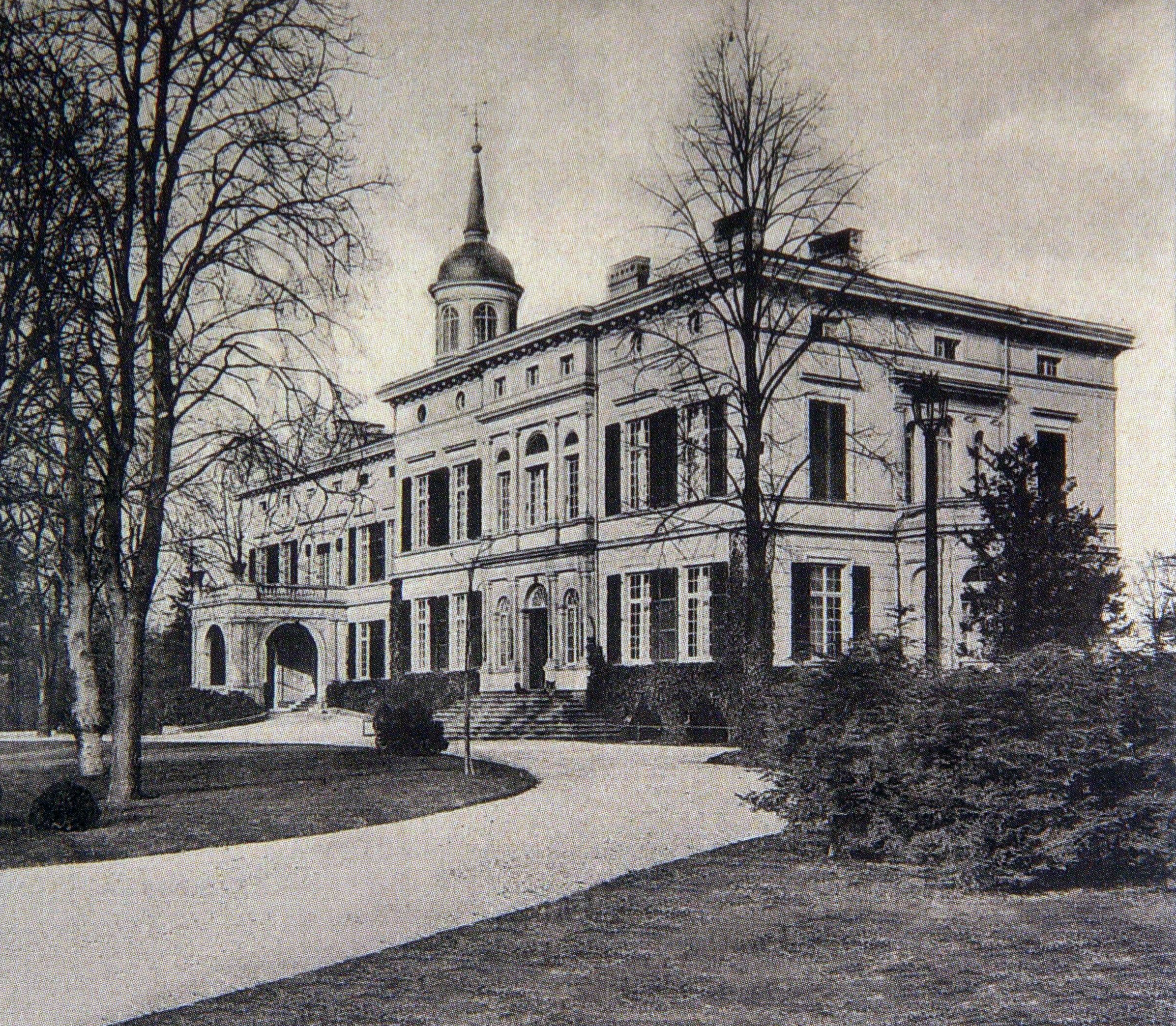 Palais Schaumburg (around 1900)